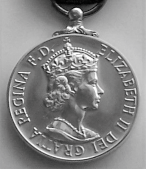 Design of obverse since 1955